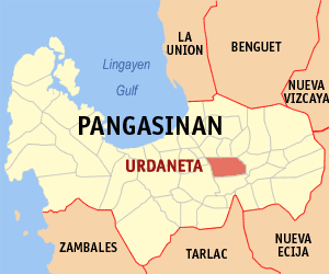 Map of Pangasinan showing the location of Urdaneta